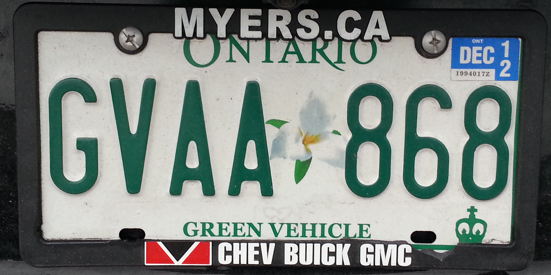 Green vehicle Ontario number plate, affixed to a Chevrolet Volt. The numbers and letters are separated by an image of a trilium, rather than the crown, as is customary on Ontario plates. The crown is displayed in the lower right corner. The prefix of green vehicles is GV